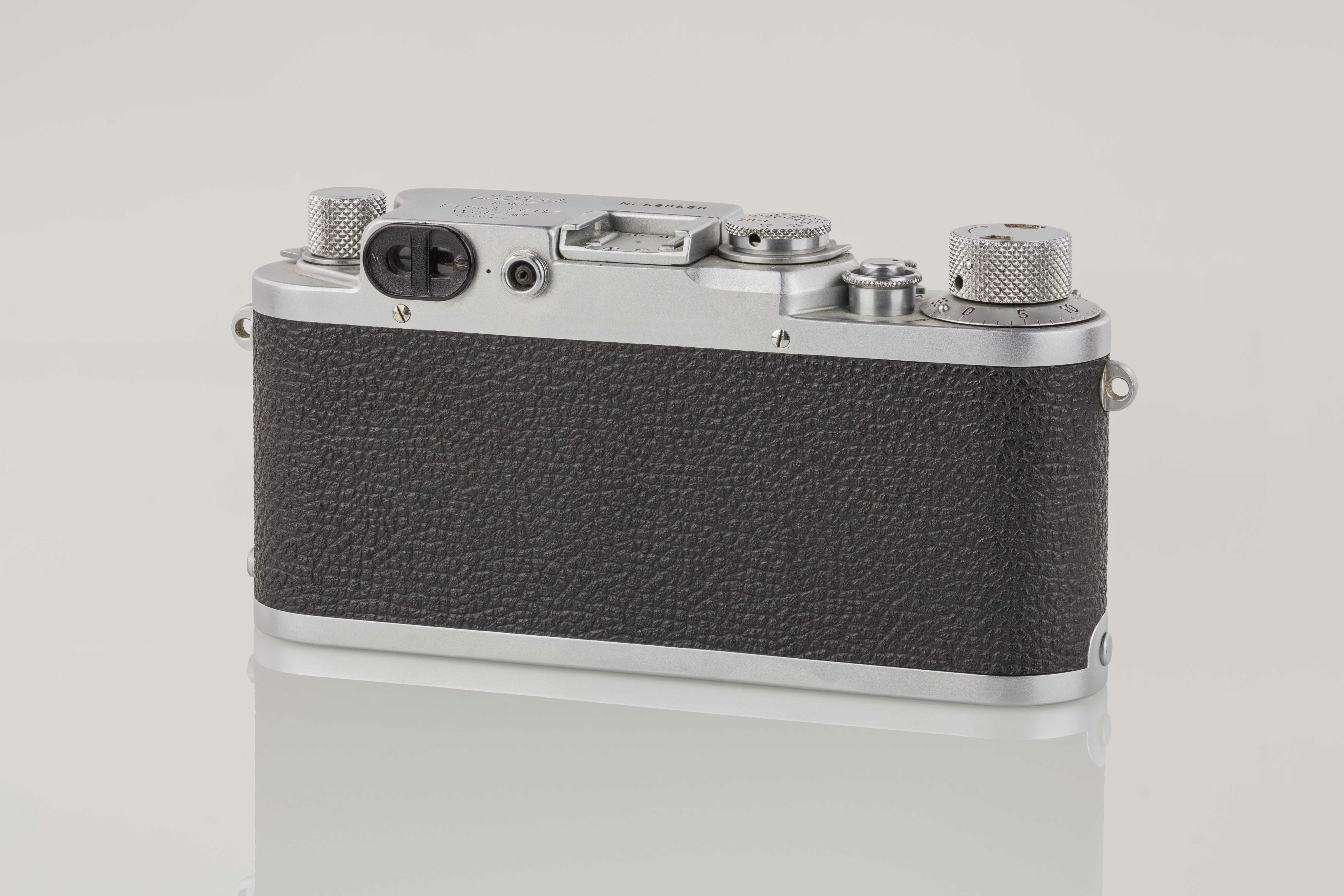 Leica IIIf with flash synchronisation - Sn. 580566 - M39, 1951-52 - Mount: M39